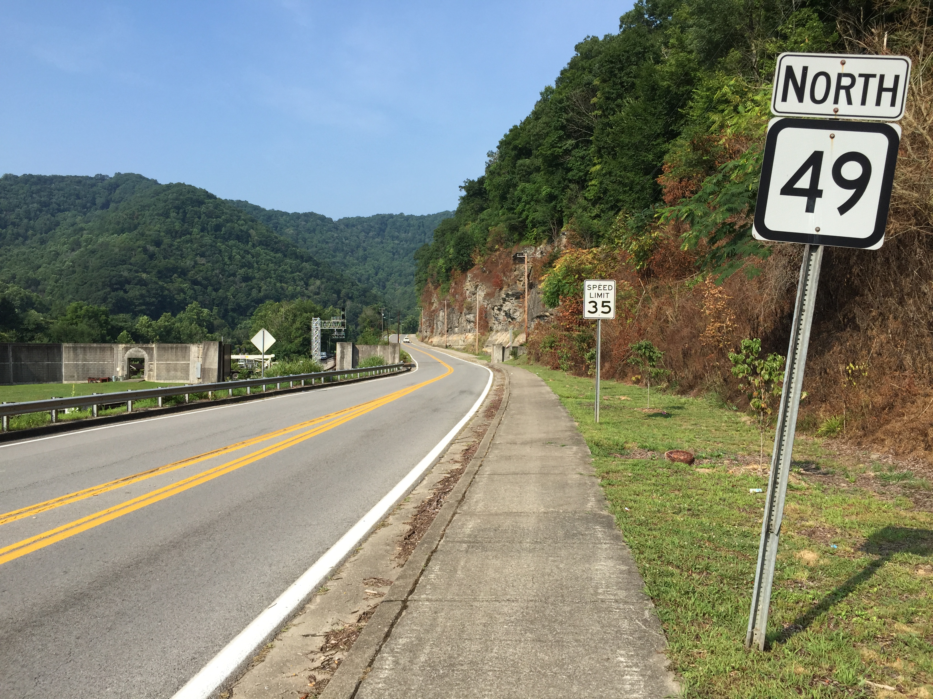 View north along West Virginia State Route 49 (Mate Street) at Bridge Street in Matewan, Mingo County, West Virginia